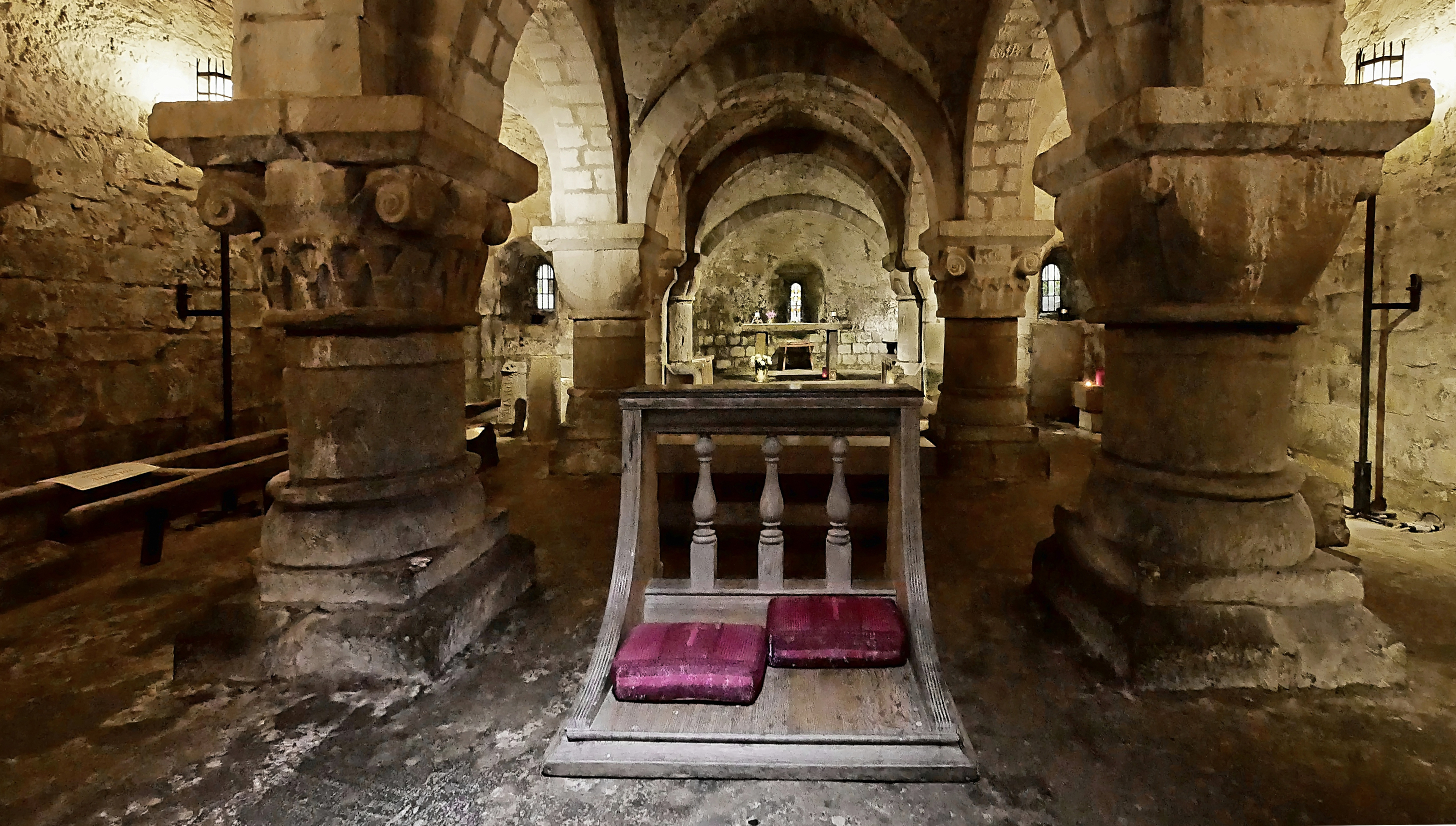 Inside the crypt of St Mary's parish church, Lastingham, North Yorkshire